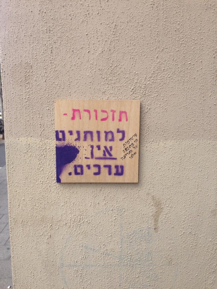 slogan on a wood in Tel-Aviv, Israel saying "brands have no values". In Hebrew like in English, the word value is both about money and morals.